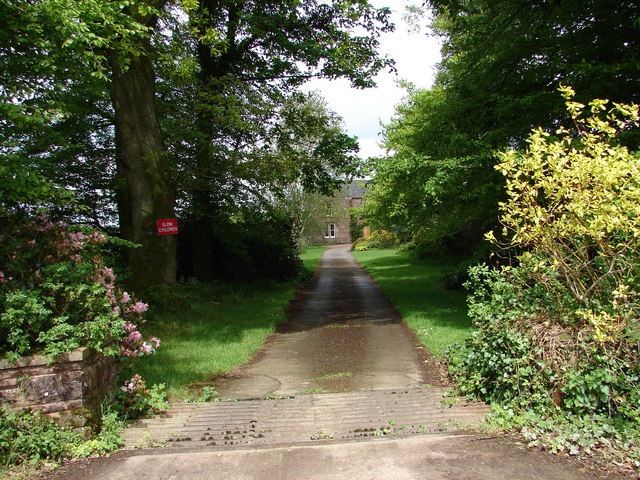 Wyseby Mains Entrance to Wyseby Mains Farmhouse.